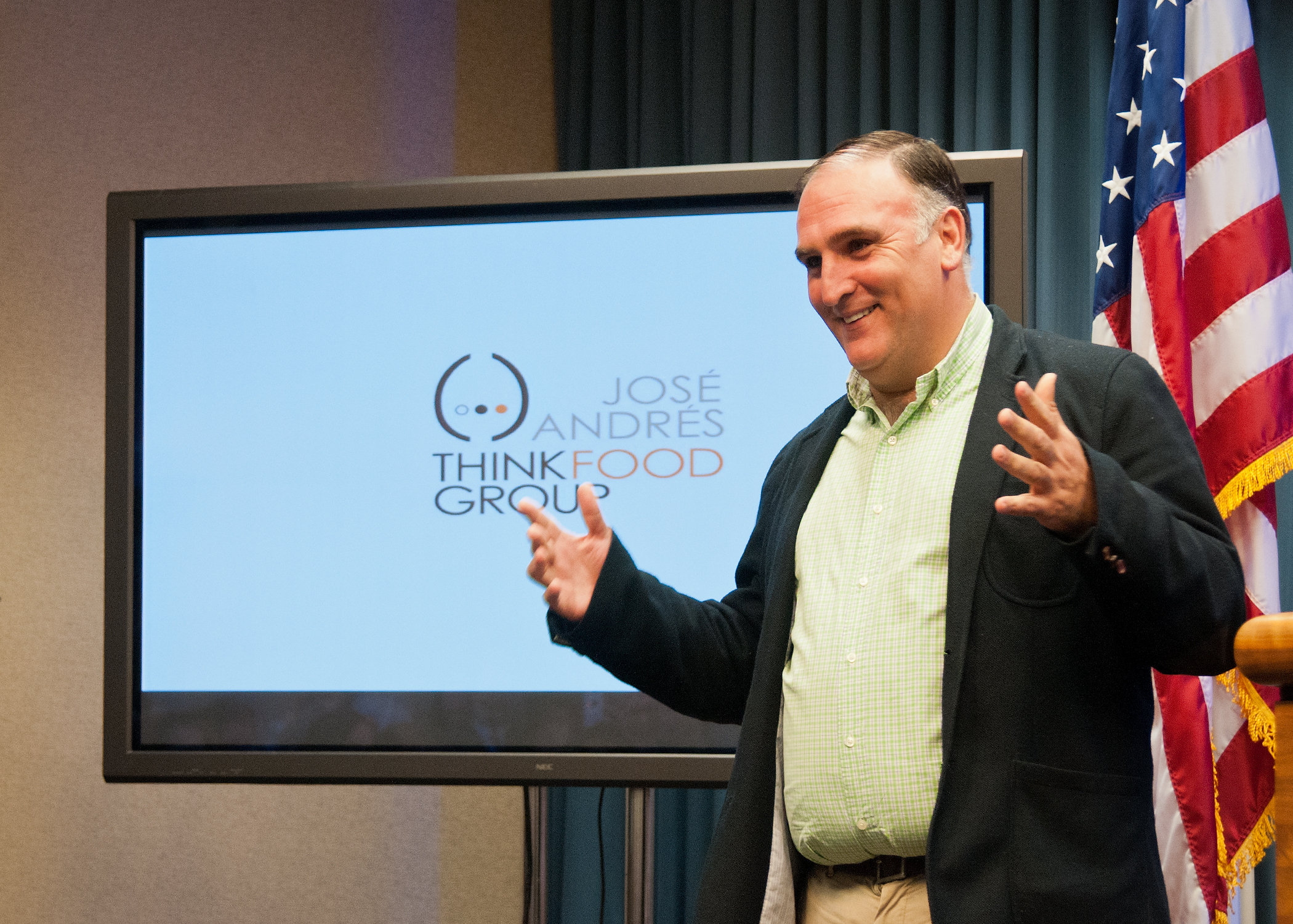 Chef Jose Andres, Chef/Owner, Think Food Group the guest speaker at the kick-off meeting of the United States Department of Agriculture White House Liaison Weekly Political Appointee Meeting for the New Year in Washington, DC, Thursday, January 20, 2012. Chef Andres discussed creativity and how it can contribute to food policy. USDA photo by Bob Nichols.